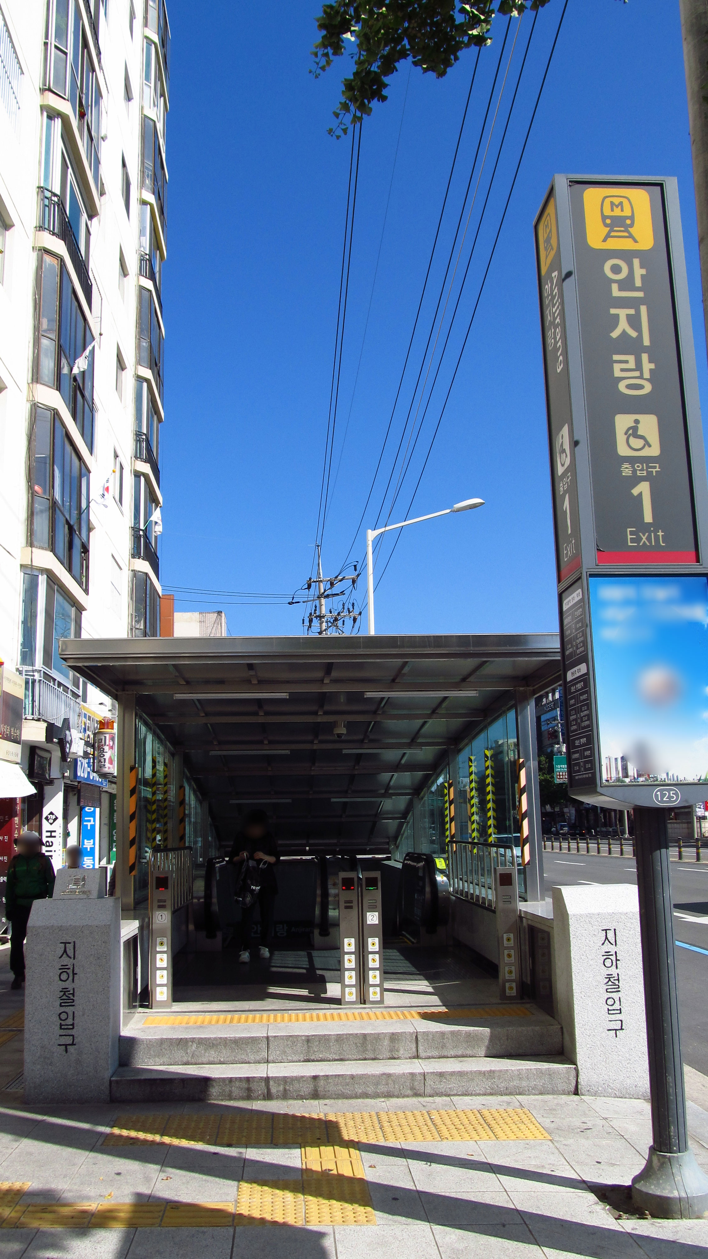 The entrance no.1 of Anjirang Station on the Daegu Metro Line 1